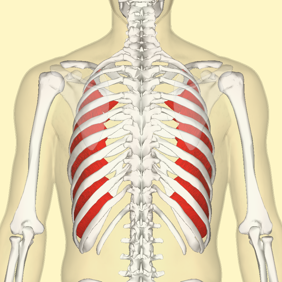 Innermost intercostal muscle (shown in red).